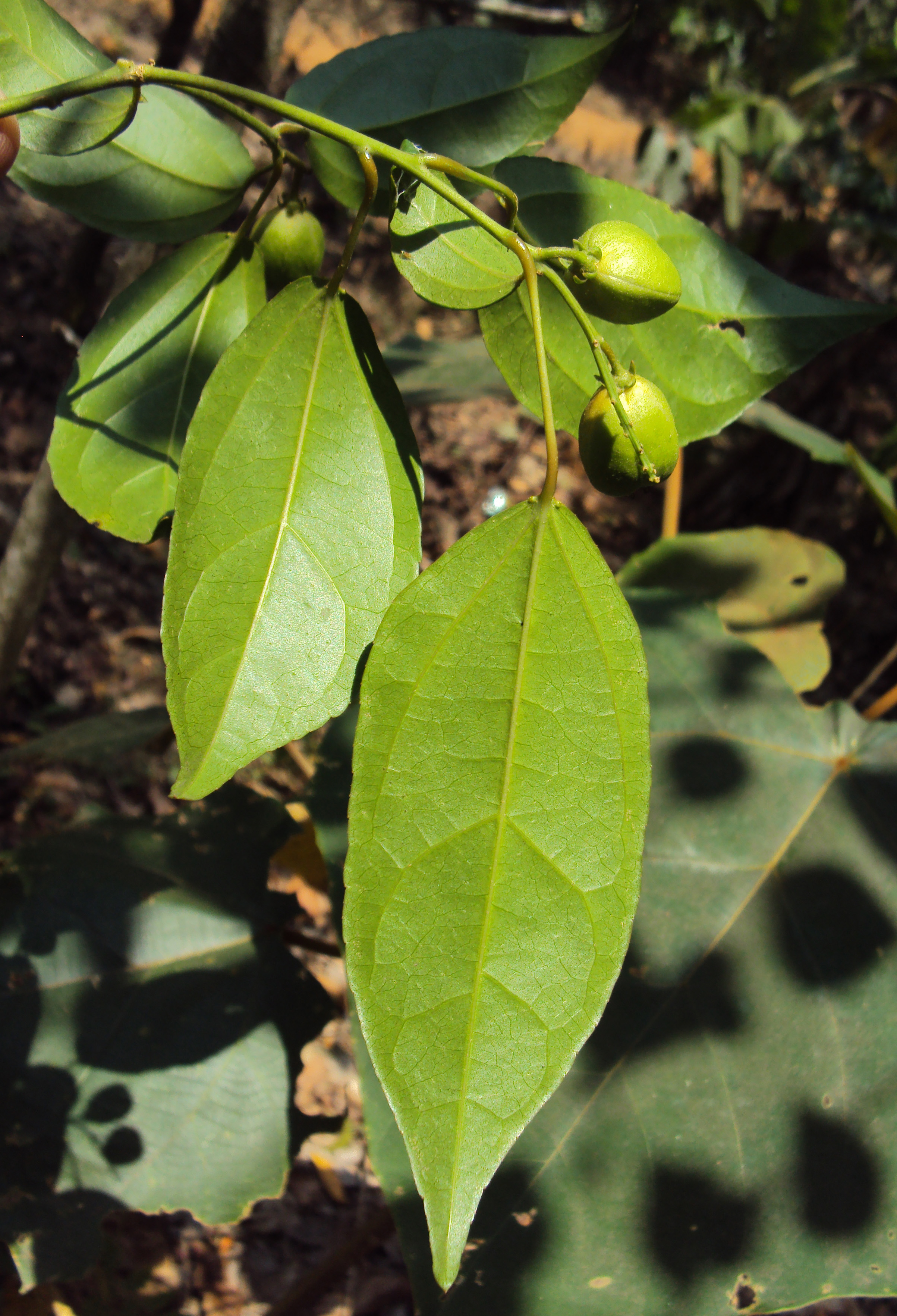 Croton tiglium